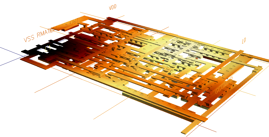 Heating effects displayed in 3d across part of a working silicon chip.